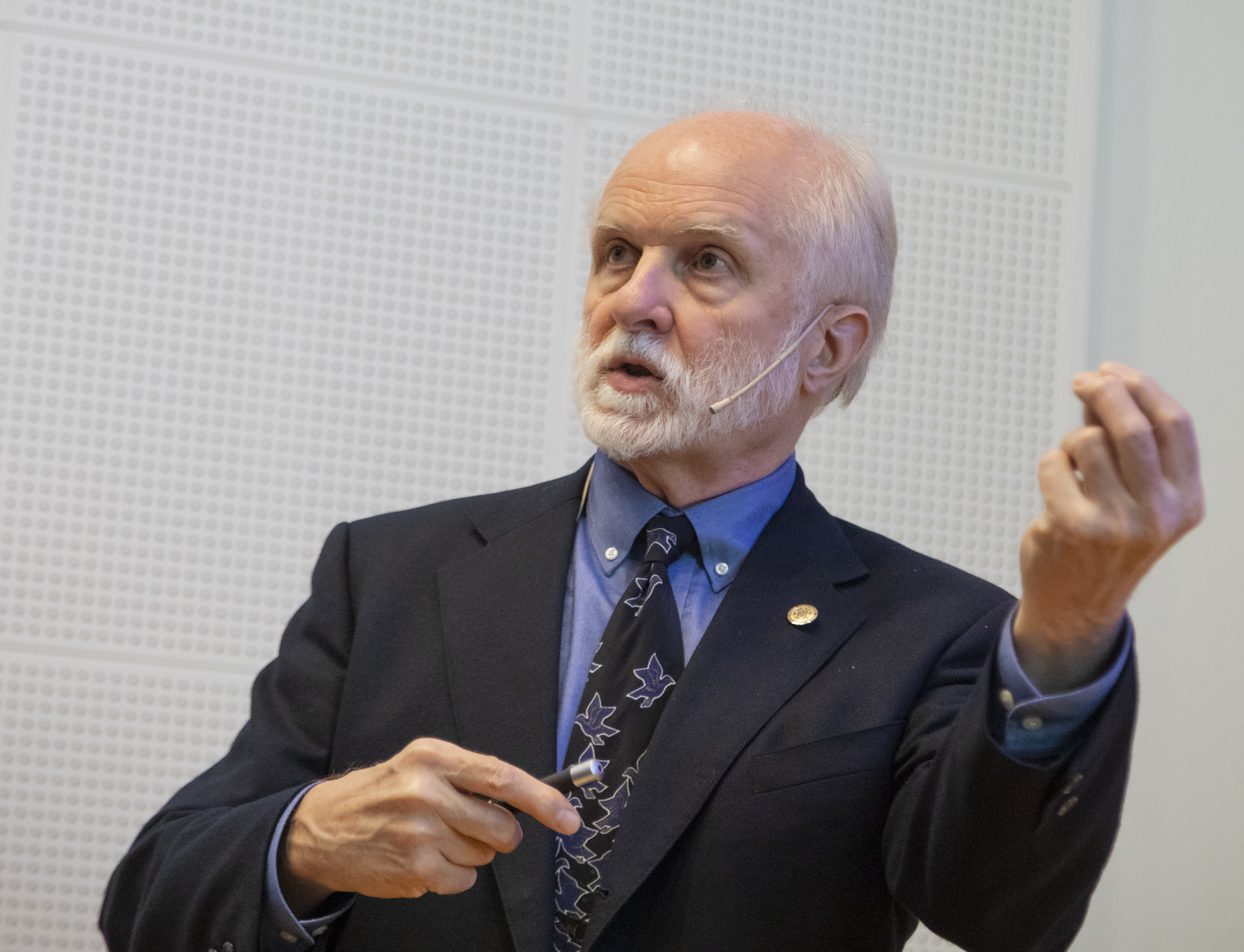 Trondheim 06.09.2018 : The Kavli Prize, Laureate Lectures 2018. Neuroscience prize lecture: James Hudspeth. Photo: Thor Nielsen / NTNU